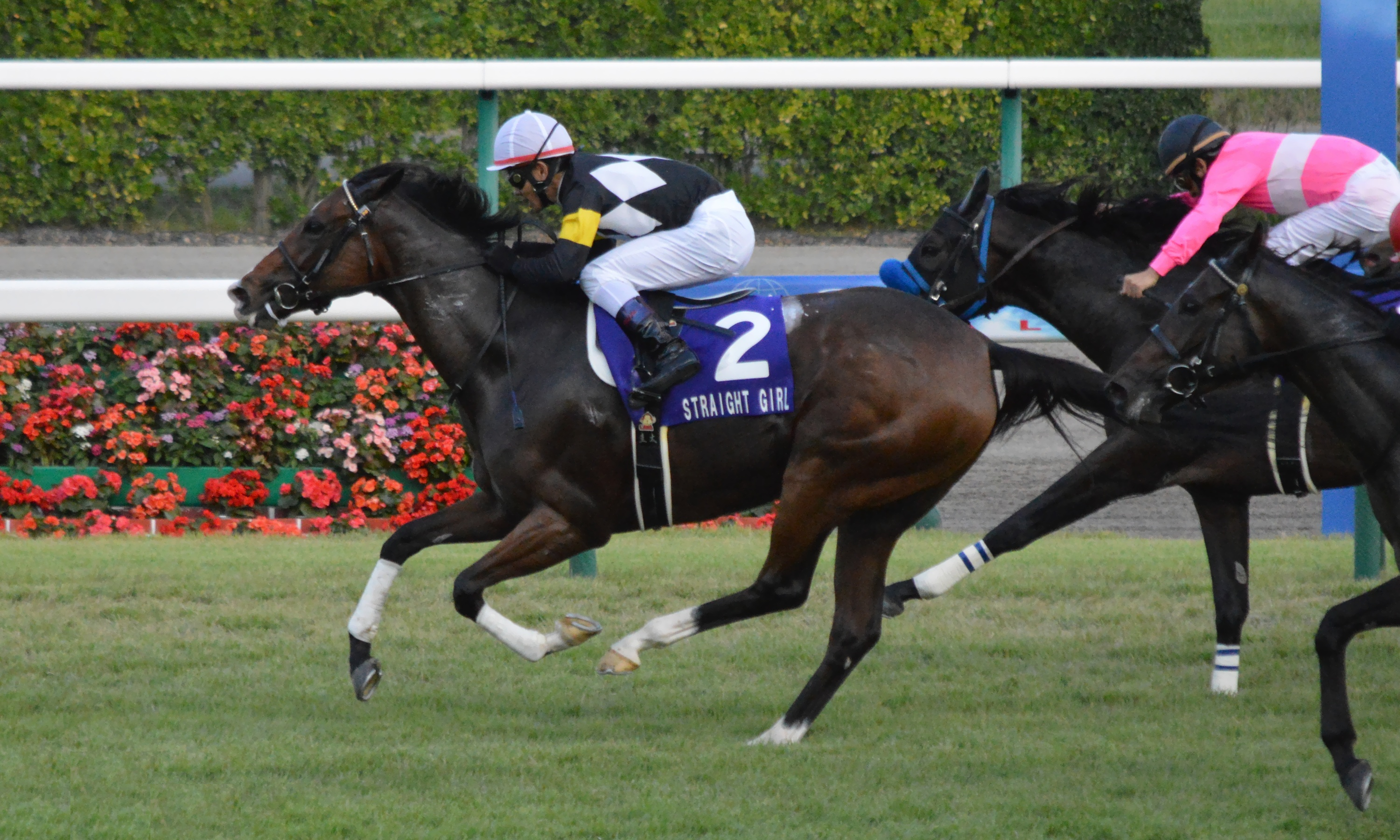 Japanese race horse Straight Girl at Nakayama racecourse. Nakayama (JPN) 4 Oct 2015Sprinters Stakes (Grade 1) (3yo+) (Turf) 6f Firm RankHorse NameOddsAgeWgtJockeyTrainer1stStraight Girl (JPN)17/5FM68-9Keita TosakiKeita Tosaki2ndSakura Gospel (JPN)28/1H79-0Norihiro YokoyamaTomohito OzekiOthers are omitted. (15 horses entered in a race.)